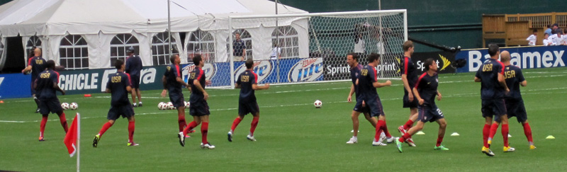 United States players warming up